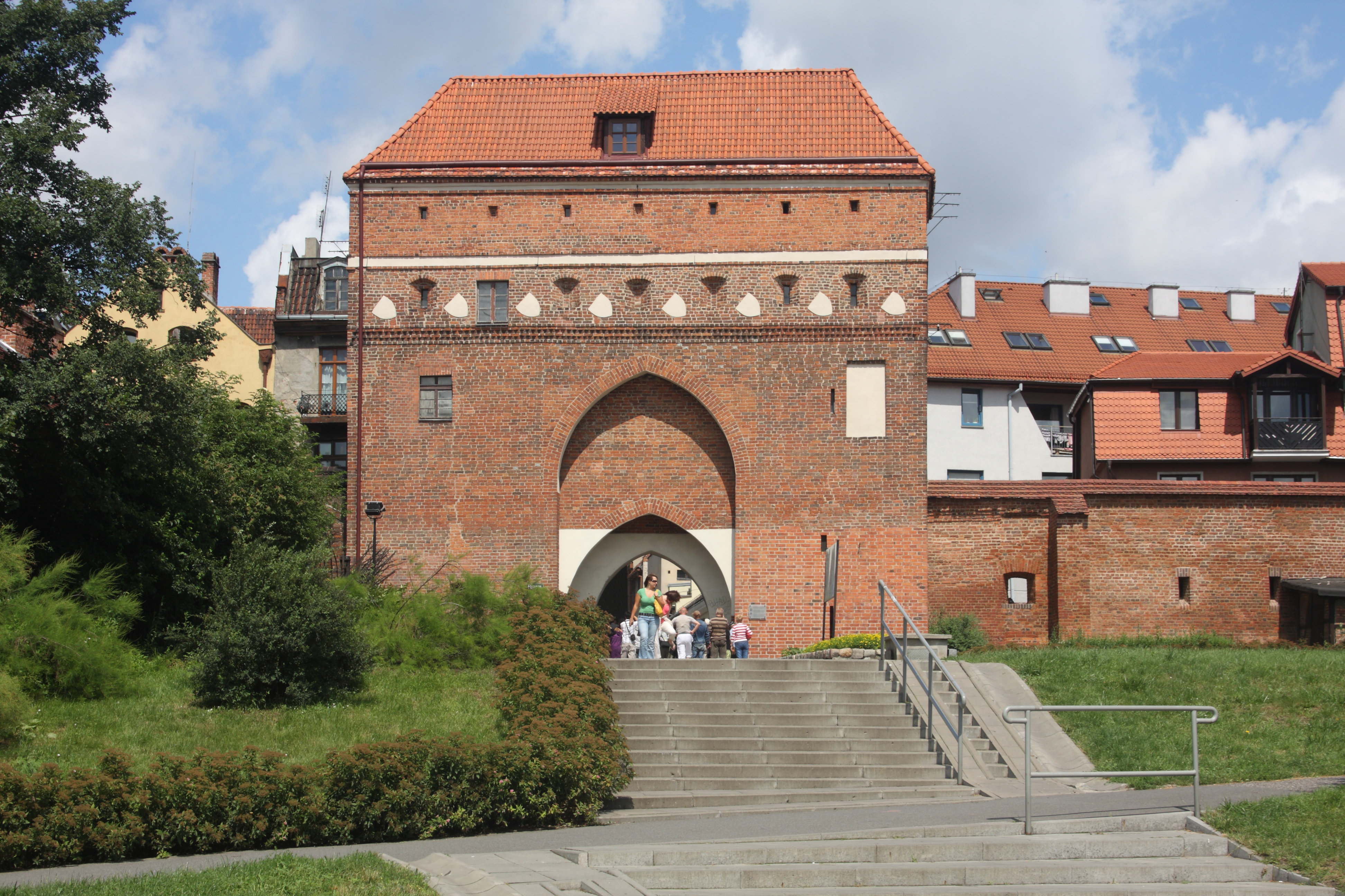 Toruń, Brama Klasztorna (Convent Gate)